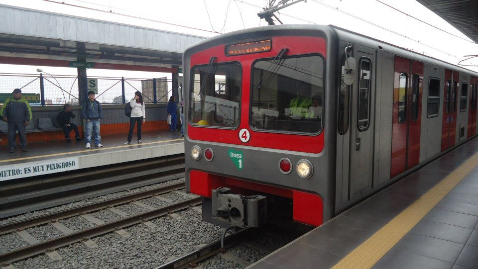 @jmcanalesq